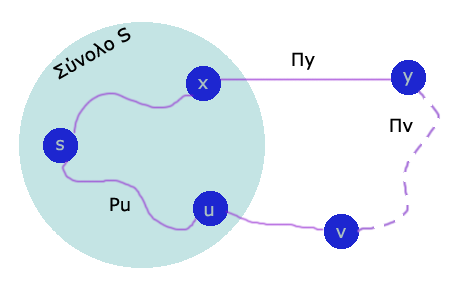 An image to describe the proof of legitimacy of Dijkstra's algorithm.